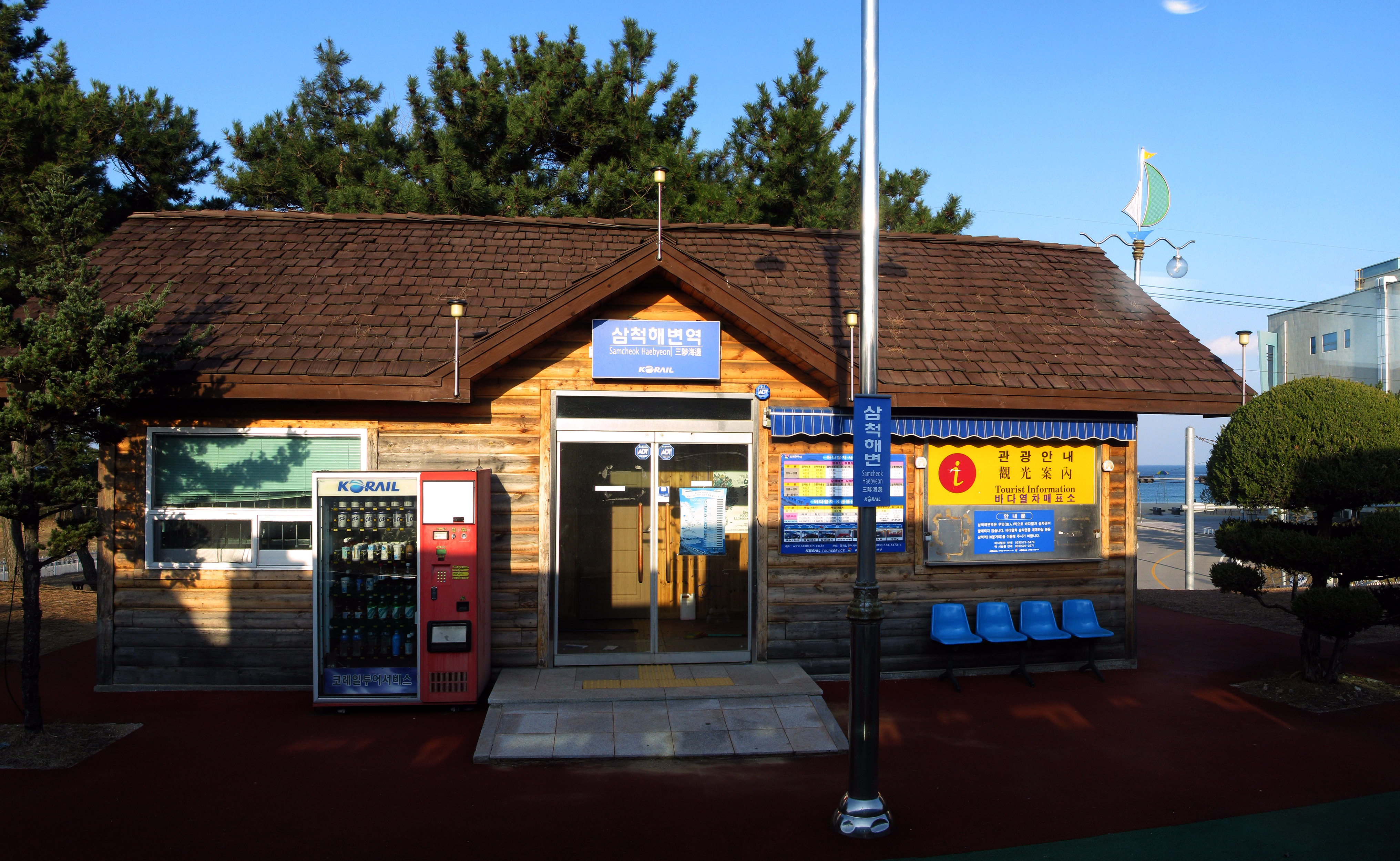 Samcheok Line Samcheok Haebyeon Station